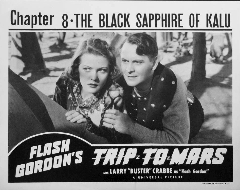 Lobby card for the 1938 serial Flash Gordon's Trip to Mars. This is chapter 8, "The Black Sapphire of Kalu".